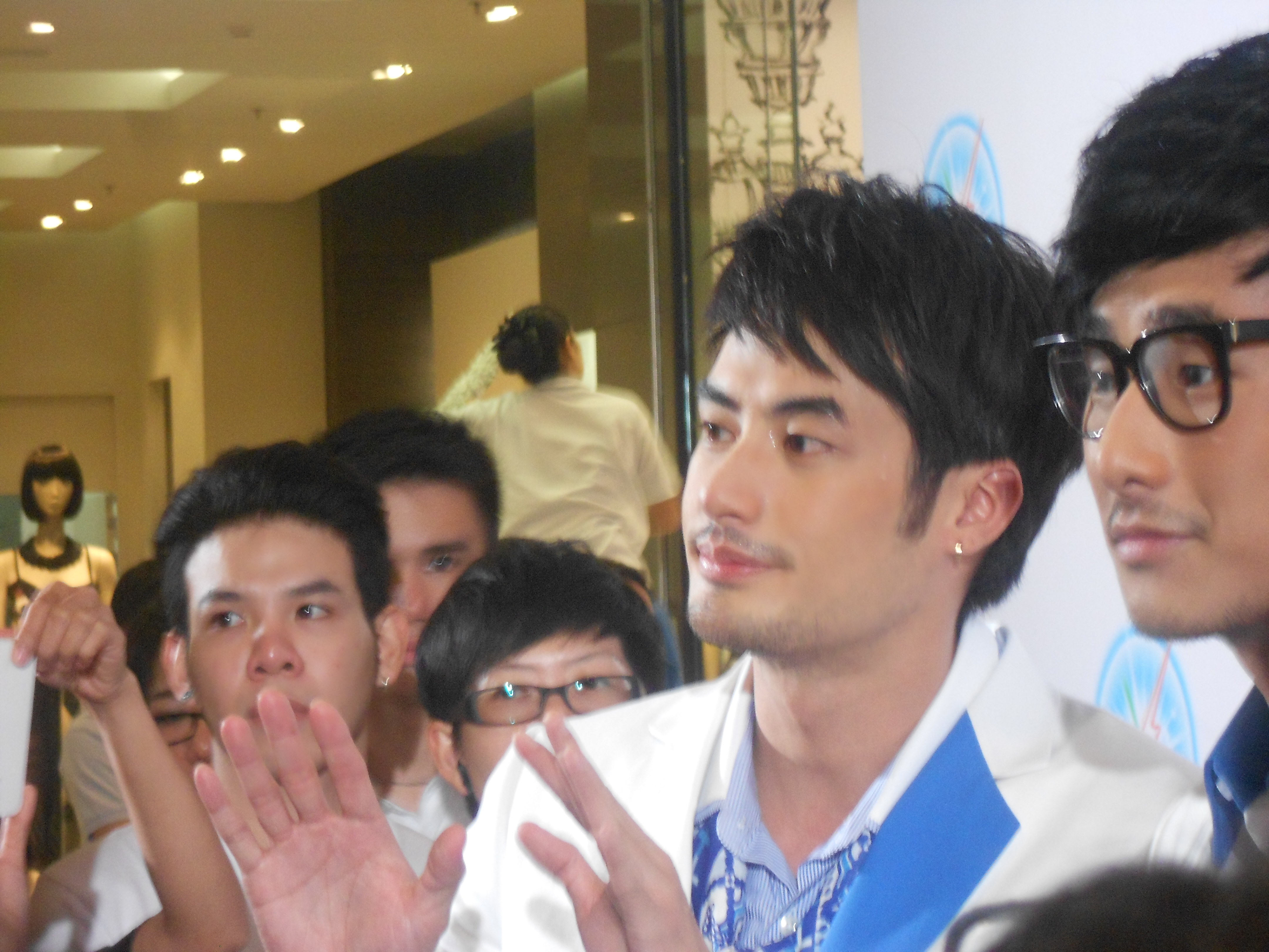 OMO Plus Liquid Event at Central Rama 9 on October 8th, 2012